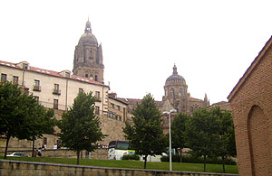 Cathedral of Salamanca.